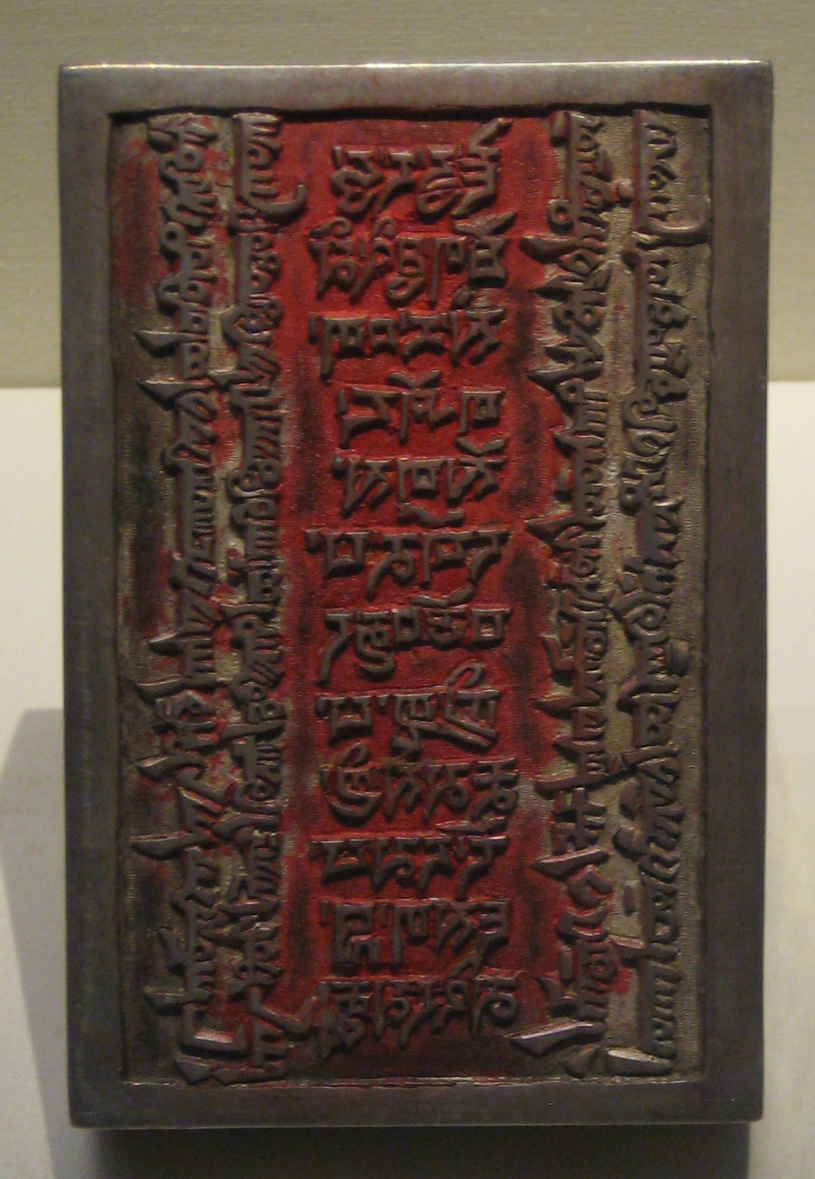 Silver seal of the Jedruong Hutuktu [རྗེ་དྲུང་ཧུ་ཐོག་ཐུ་] (an attendant to the Dalai Lama and Panchen Lama who resided at the Kunde Ling Monastery at Lhasa), with inscriptions in the Tibetan and Manchu scripts. Qing Dynasty (1644-1911).